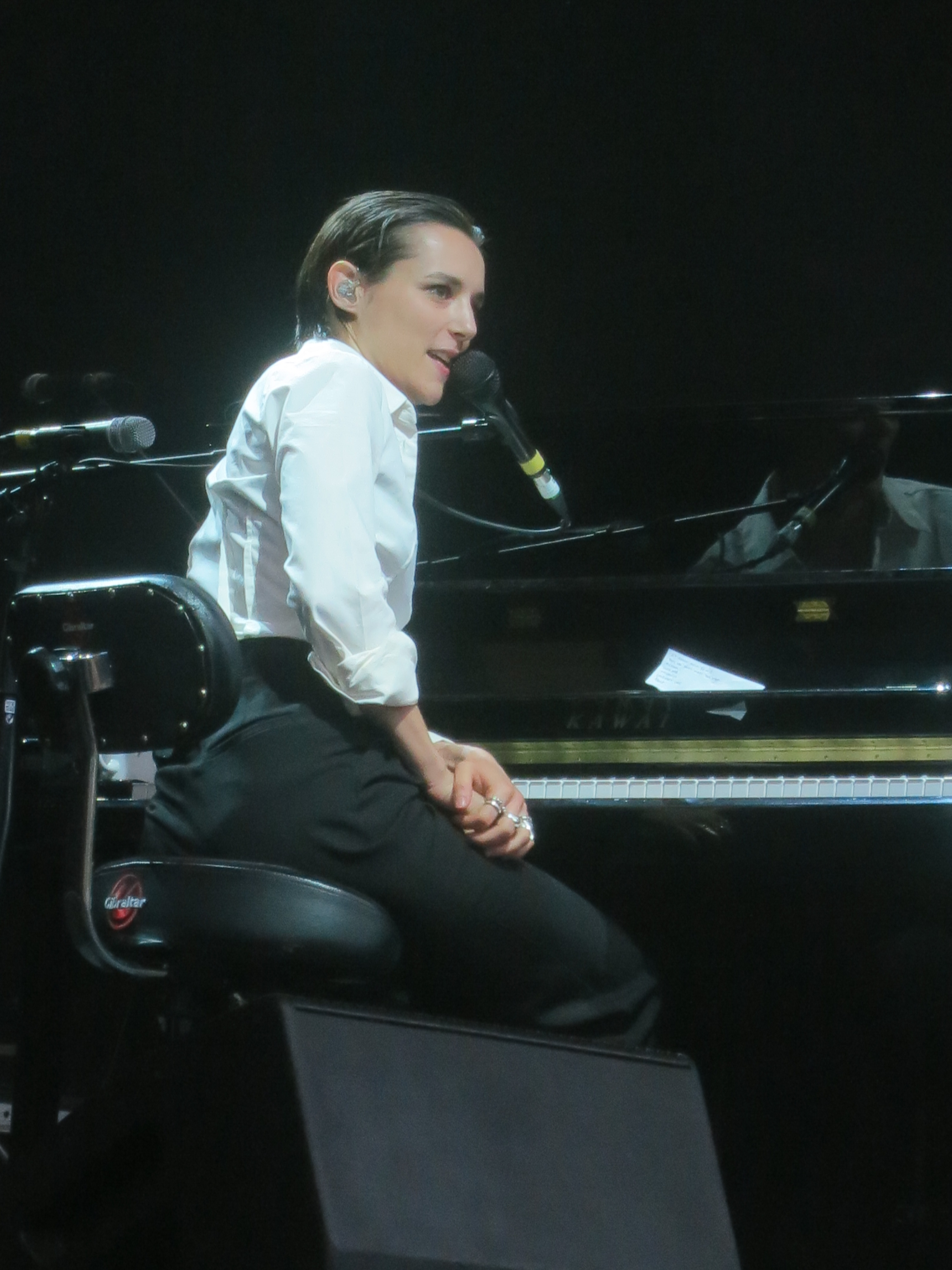 Photo of Jehnny Beth performing live in 2016.